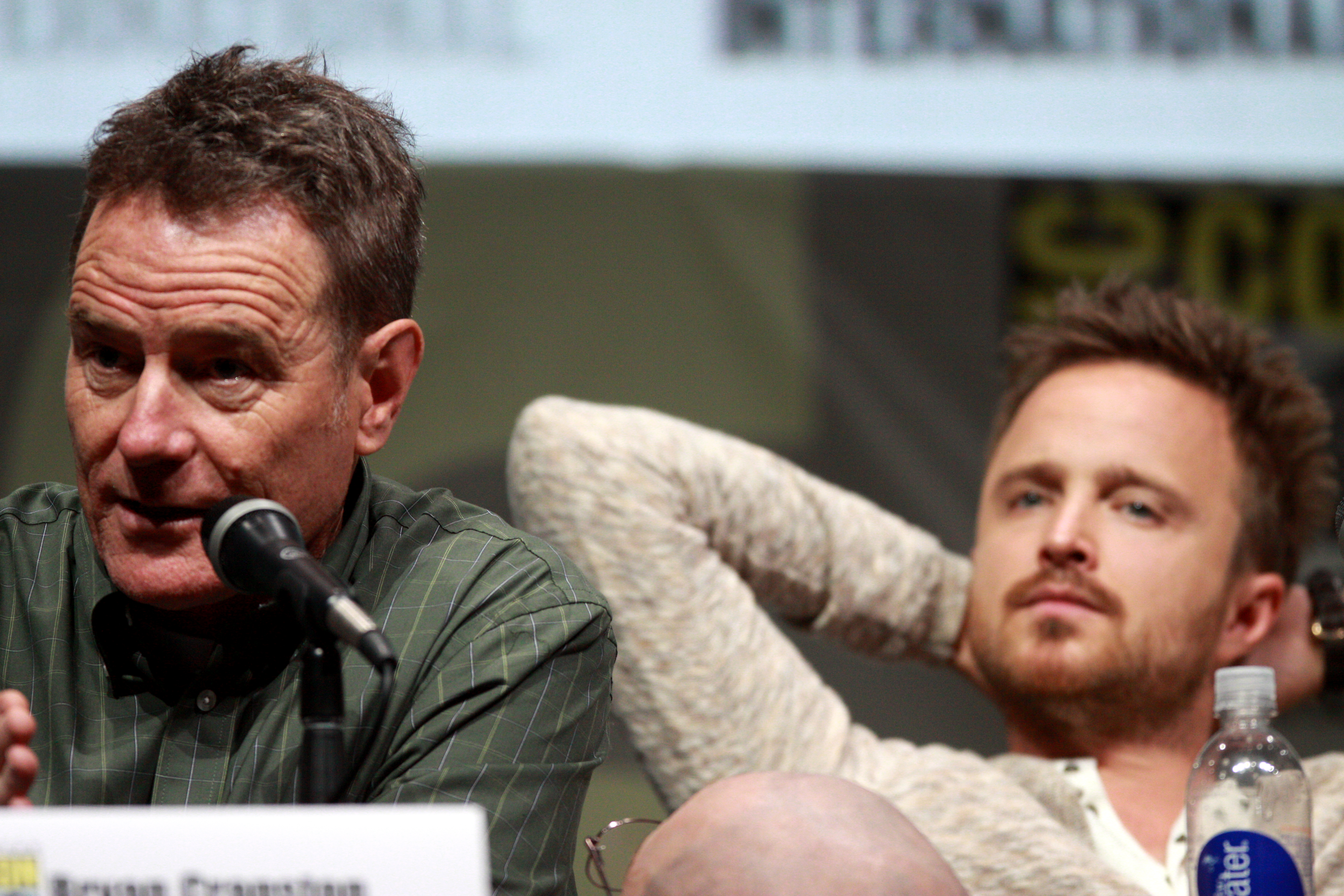 Bryan Cranston and Aaron Paul speaking at the 2013 San Diego Comic Con International, for "Breaking Bad", at the San Diego Convention Center in San Diego, California.